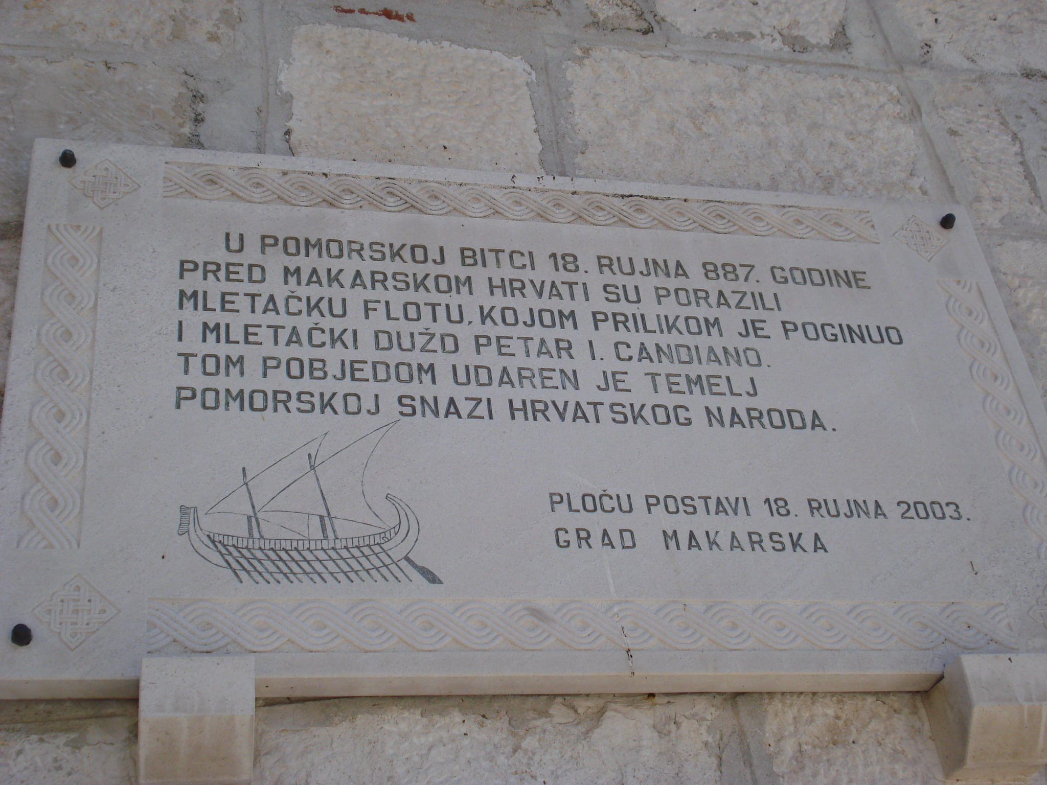 Memorial plaque to Croatian victory over Venetian conquerors in the naval battle of Makarska, Croatia, on 18th September 887, situated on a facade of a house in Makarska town centre, Split-Dalmatia County, Republic of Croatia